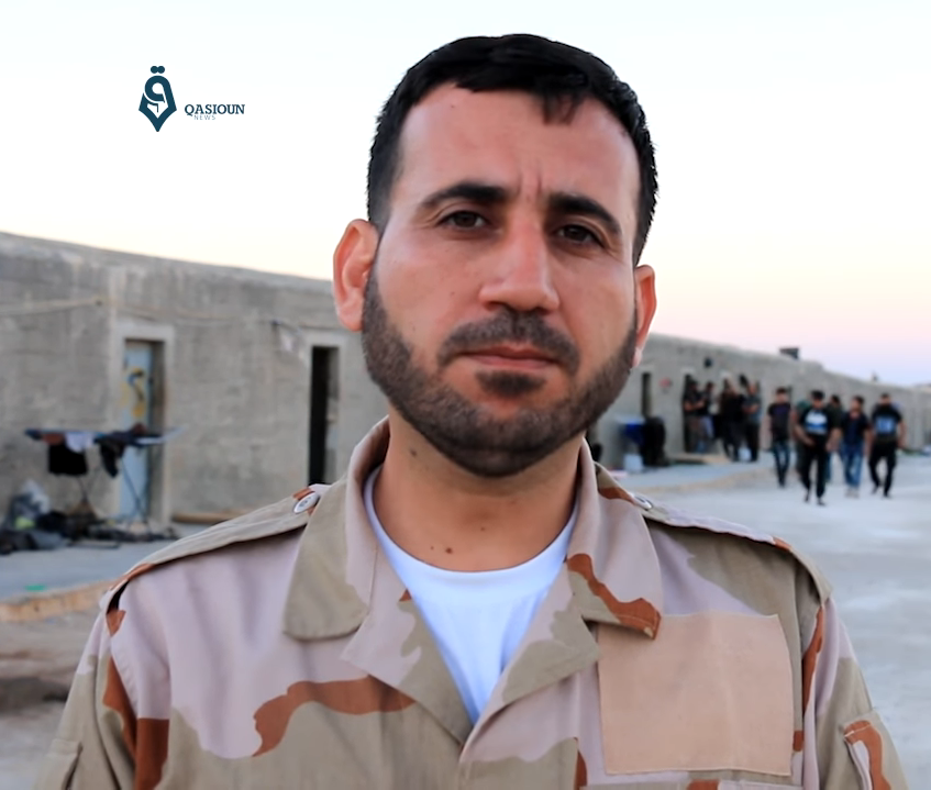 Captain Saeed Narqash, commander of the Martyrs of Islam Brigade, after his group surrendered in Daraya and was relocated to northwestern Syria.